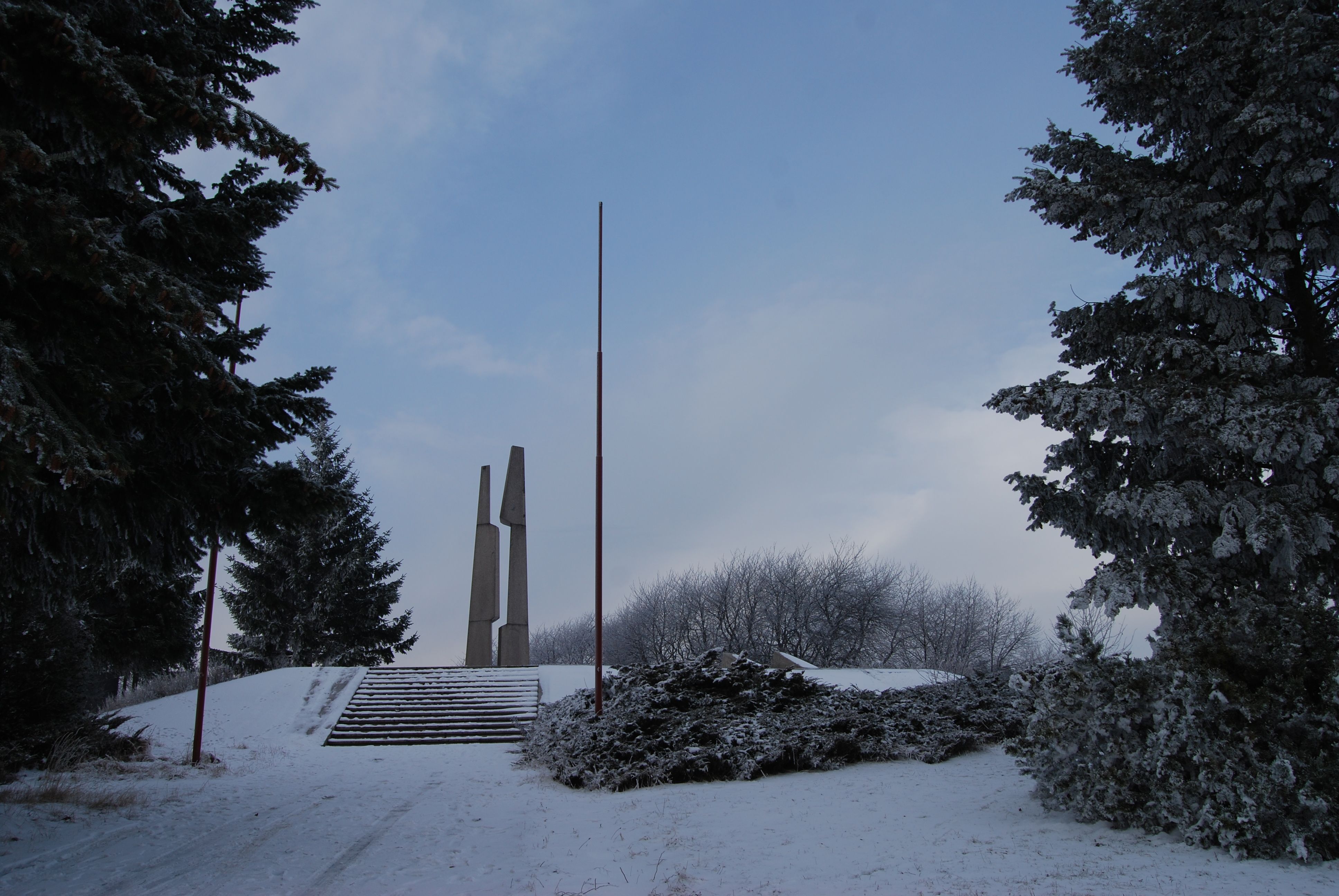 Last place of batlle in Second World War in Europe. Milín, Czech Republic.